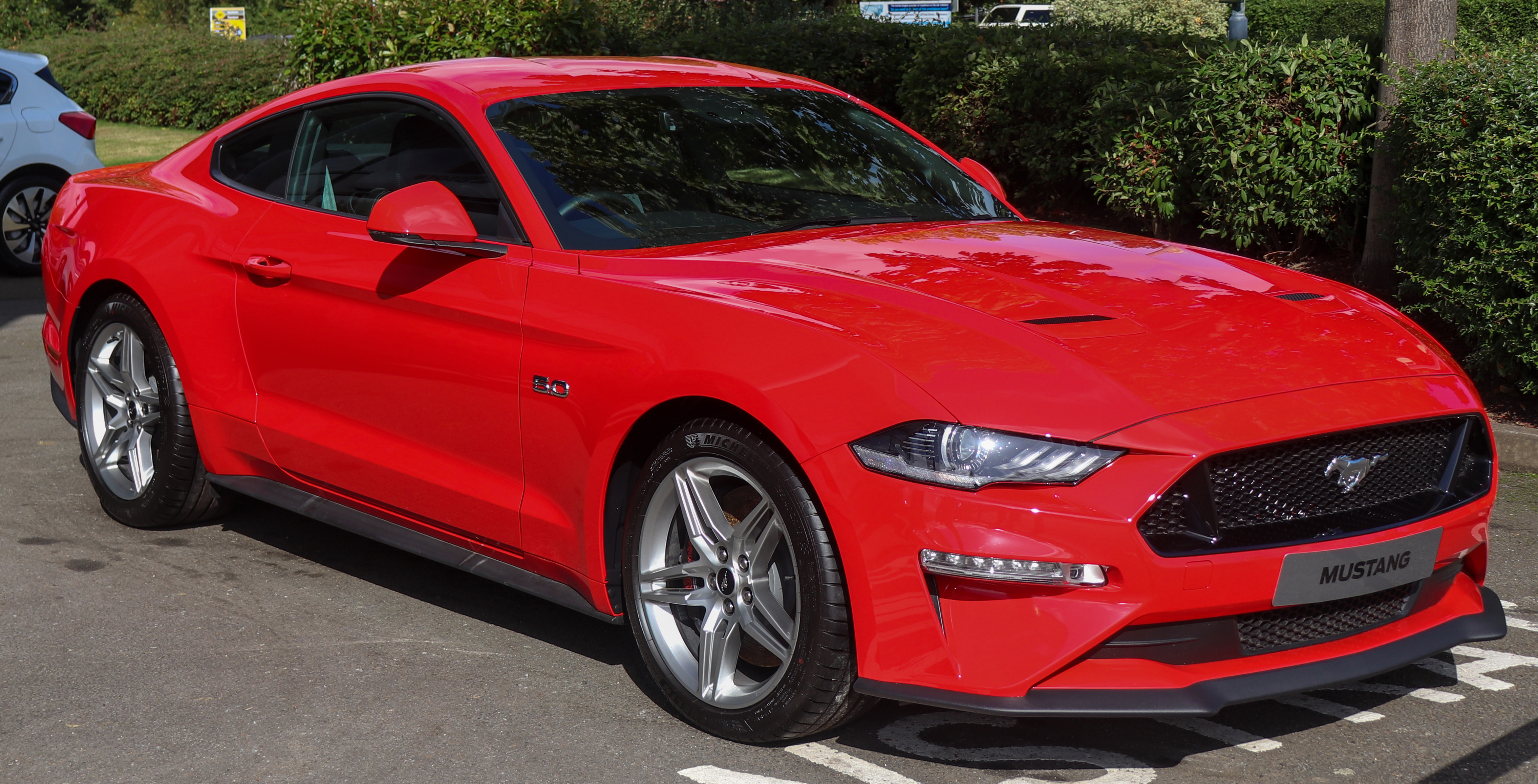 2019 Ford Mustang 5.0 Front Taken in Leamington Spa